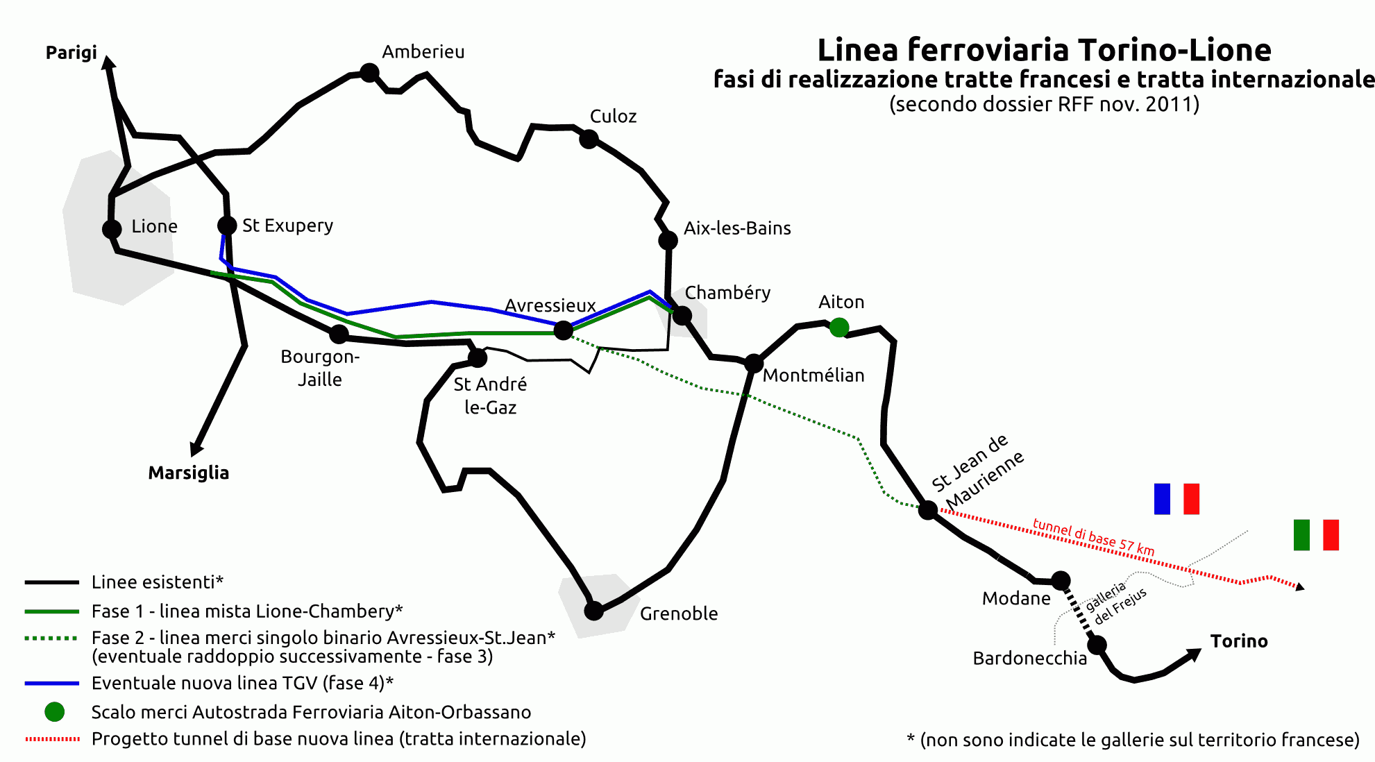 Schematic view of existing (black) and planned (TGV blue, freight green with 2 hypothetical steps) Turin-Lyon railway links (French ad international tracks).